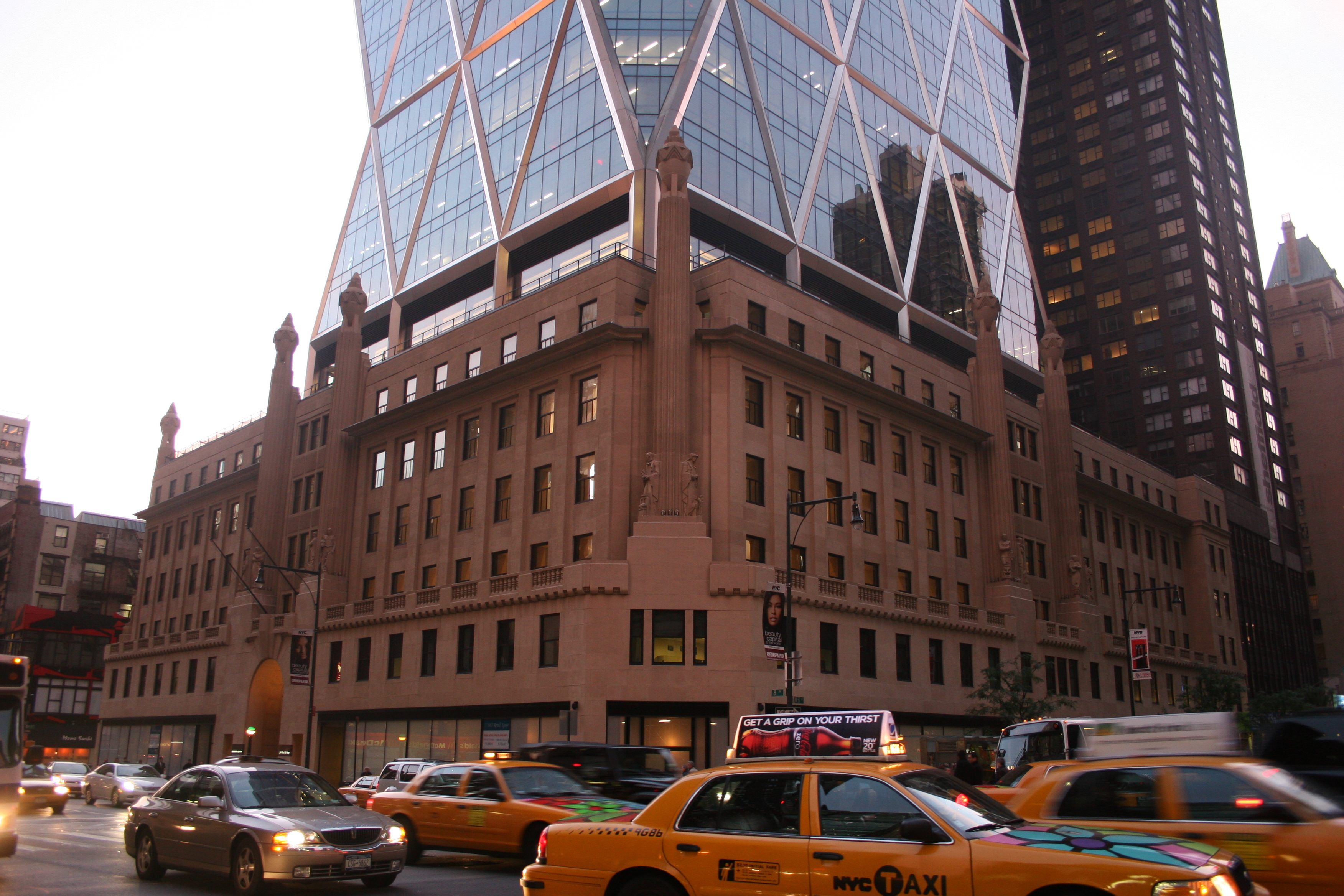 Base of the Hearst Tower, New York, NY